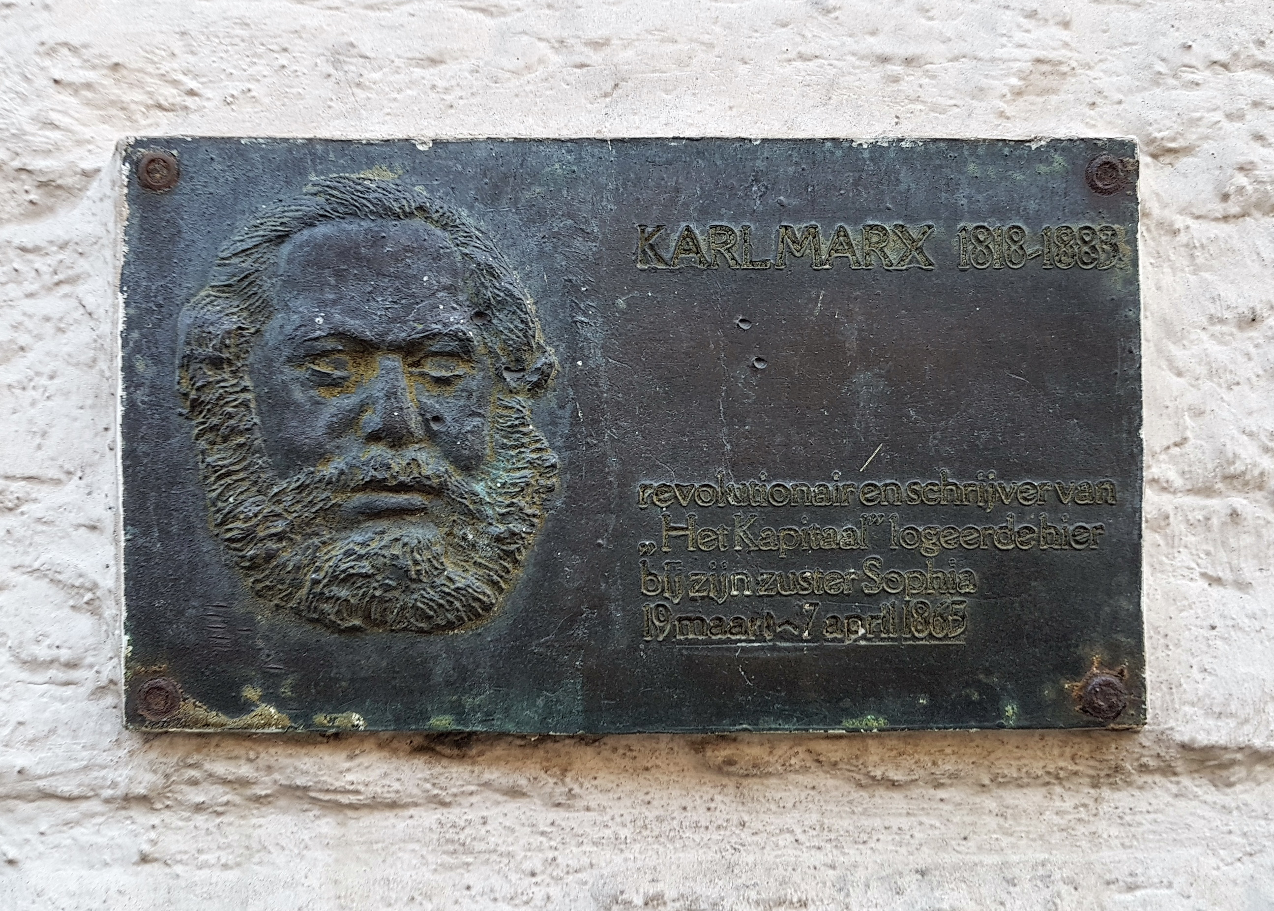 Plaque of Karl Marx on the façade of Hof van Slijpe, (Bouillonstraat 8-10) in the centre of Maastricht, Netherlands. The text on the plaque is incorrect. It mentions that Karl Marx stayed here when he visited his sister Sophie in 1865. Sophie lived here but had moved to Markt 1 by that time.